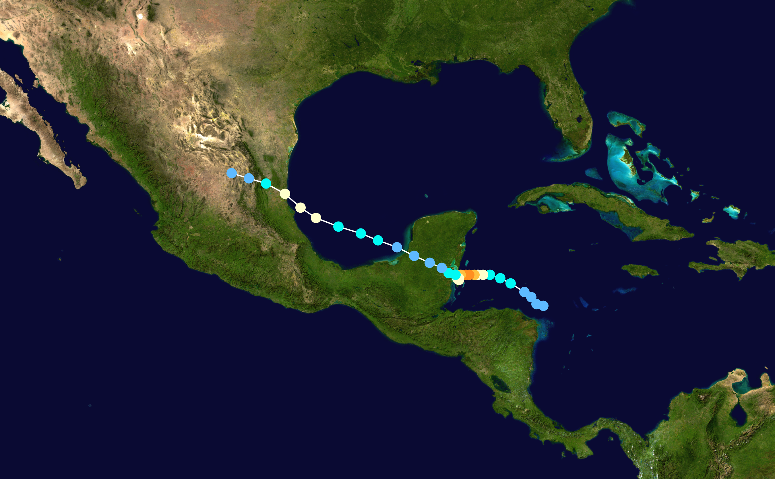 Track map of Hurricane Keith of the 2000 Atlantic hurricane season. The points show the location of the storm at 6-hour intervals. The colour represents the storm's maximum sustained wind speeds as classified in the Saffir–Simpson scale (see below), and the shape of the data points represent the nature of the storm, according to the legend below. Saffir–Simpson scale Tropical depression≤38 mph≤62 km/h Category 3111–129 mph178–208 km/h Tropical storm39–73 mph63–118 km/h Category 4130–156 mph209–251 km/h Category 174–95 mph119–153 km/h Category 5≥157 mph≥252 km/h Category 296–110 mph154–177 km/h Unknown Storm type Tropical cyclone Subtropical cyclone Extratropical cyclone / Remnant low / Tropical disturbance